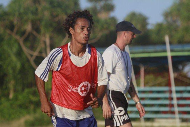 Mau Penisula